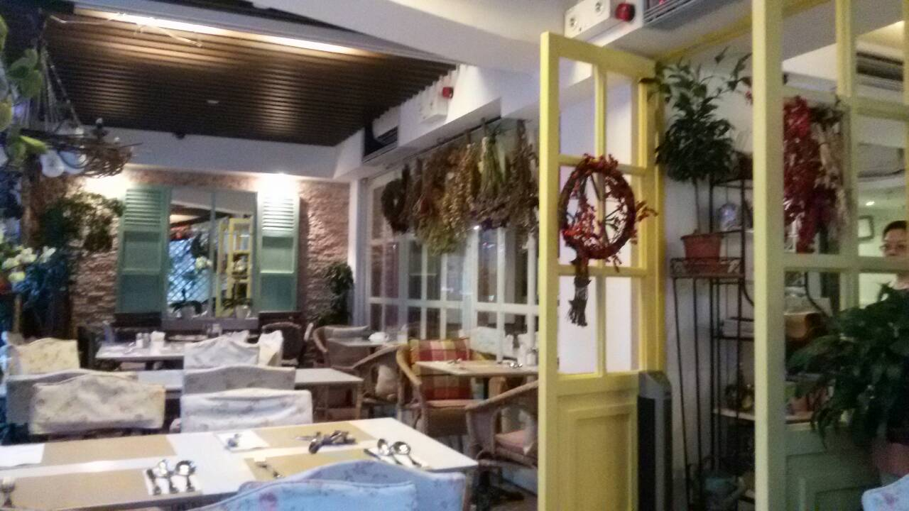 interior of upstairs cafes in hong kong